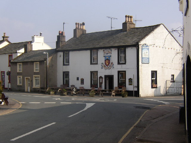 Gosforth. This is the road junction in the middle of the village. The pub is Ye Olde Lion & Lamb.